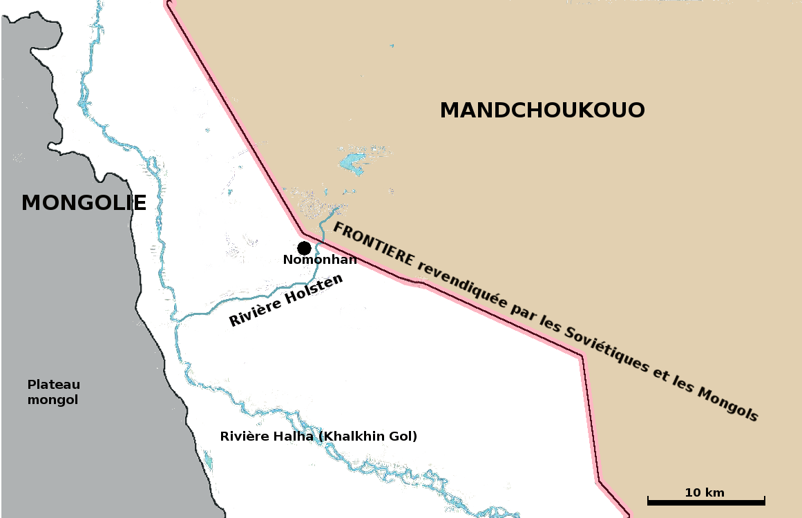 Map of landscape of Khalhin Gol in 1939. Japanese revendicated for Mandchukuo the area between the frontier and the river.